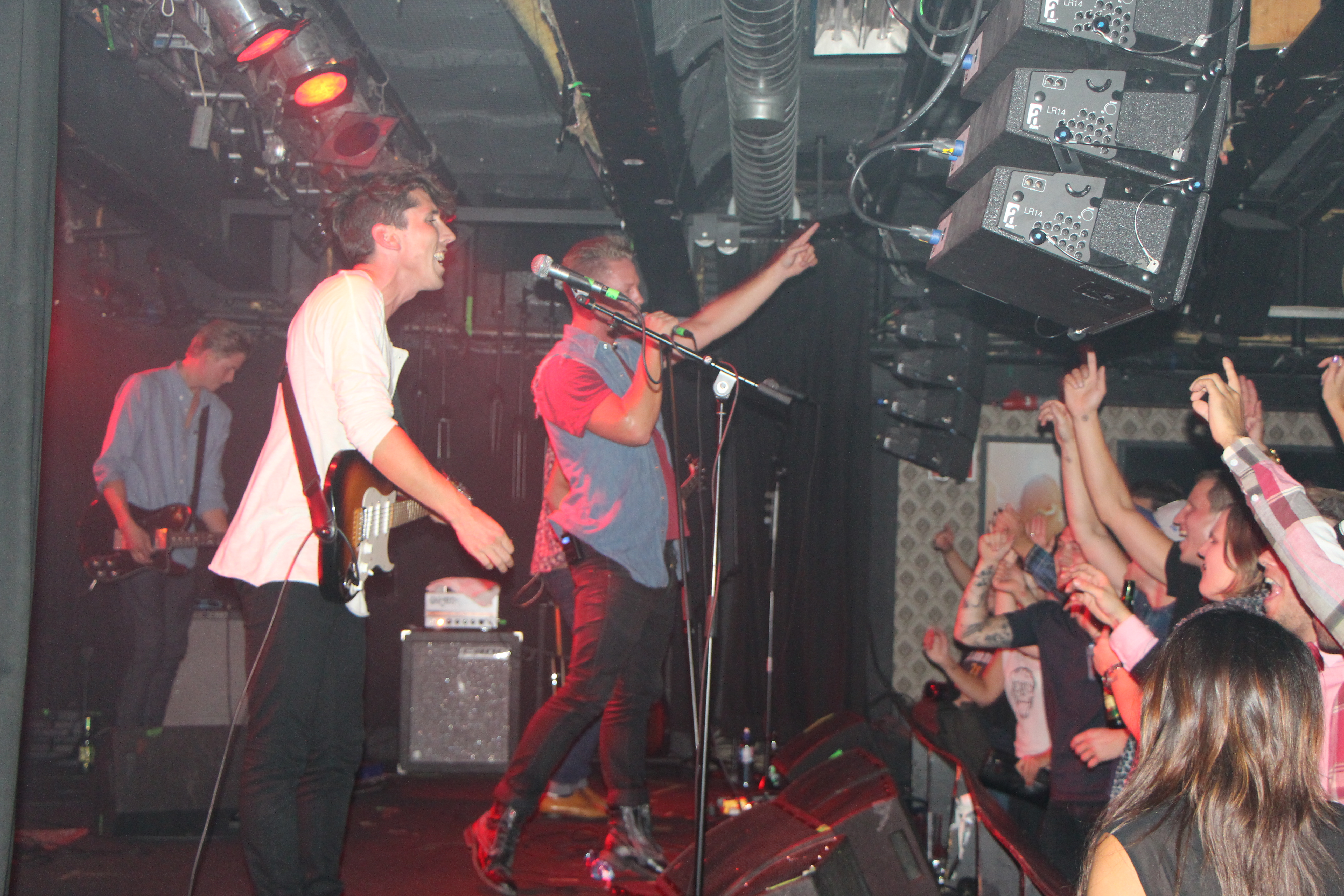 The Happy Hippo Family live at Debaser Slussen, Stockholm 2013